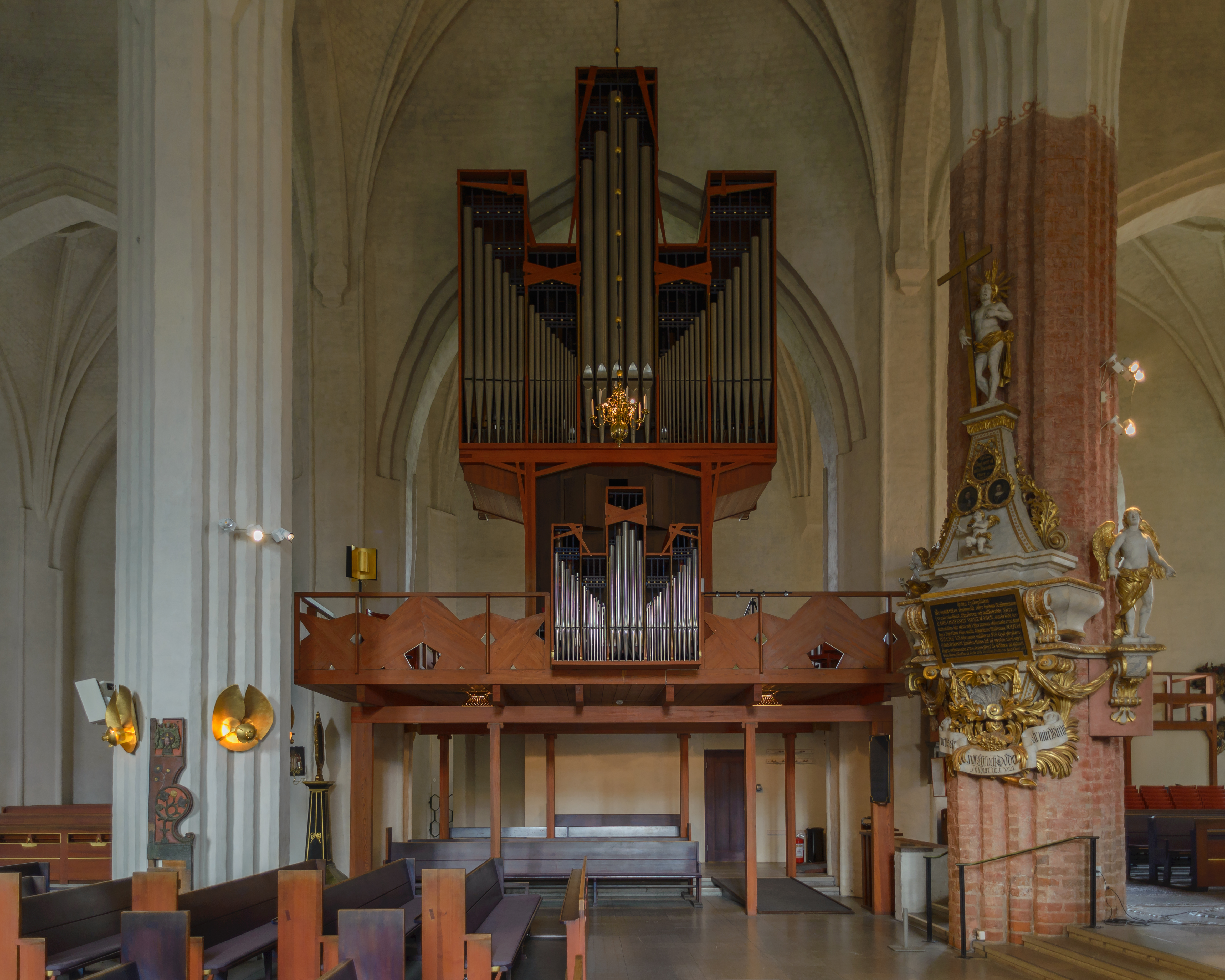 Choir organ from 1961 inside the Västerås Cathedral.